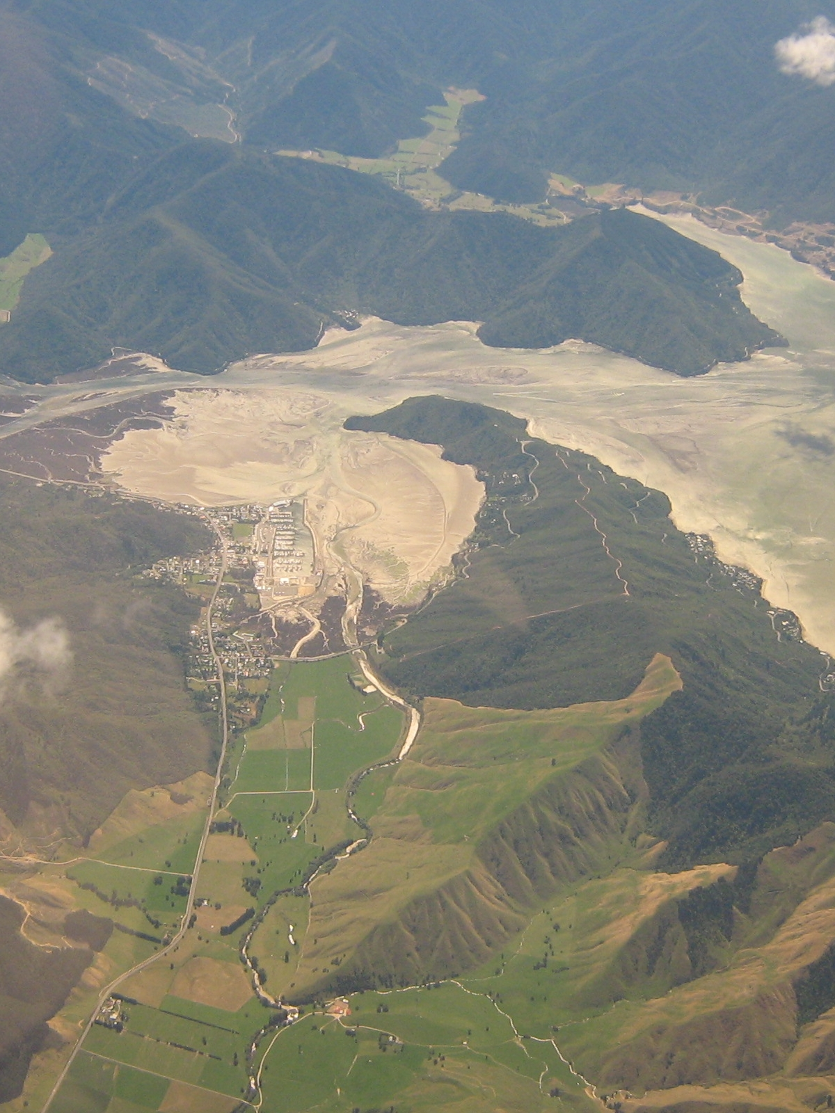 Havelock, a village in the Marlborough Sounds, New Zealand. Seen from an airplane between Westport and Wellington looking north, the port / marina can be seen, effectively landlocked during the low tide.